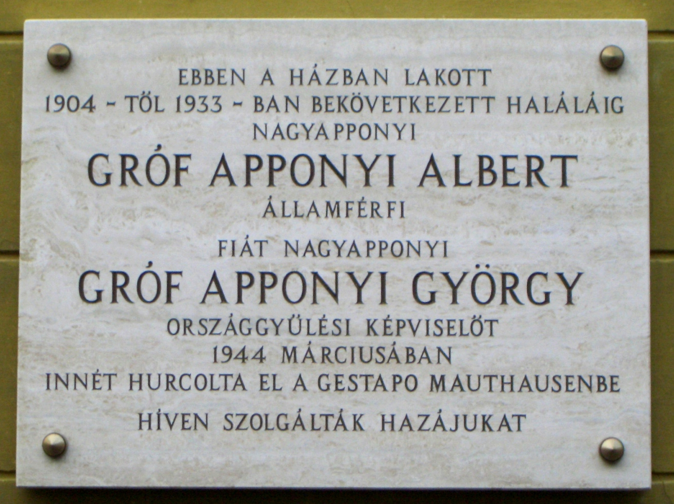 Memorial board of Count Albert Apponyi, negotiator for Hungary at the Treaty Conference in Trianon, Versailles, France in 1919-1920, and of his son, Count Georg Apponyi, deputy of the Hungarian National Assembly, arrested by the Gestapo in 1944. The memorial board is situated in on the old Apponyi Palais in Budapest, Castle district